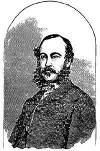 Robert Brough Smyth from Hard Times First sketch of a geological map of Australia (1873)